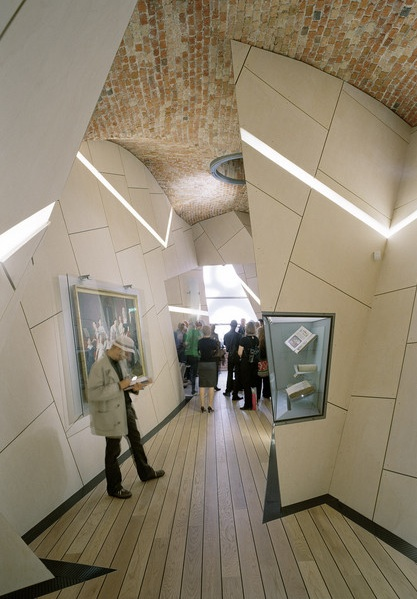 An interior view of the Danish Jewish Museum, in Copenhagen, Denmark, designed by Studio Daniel Libeskind.